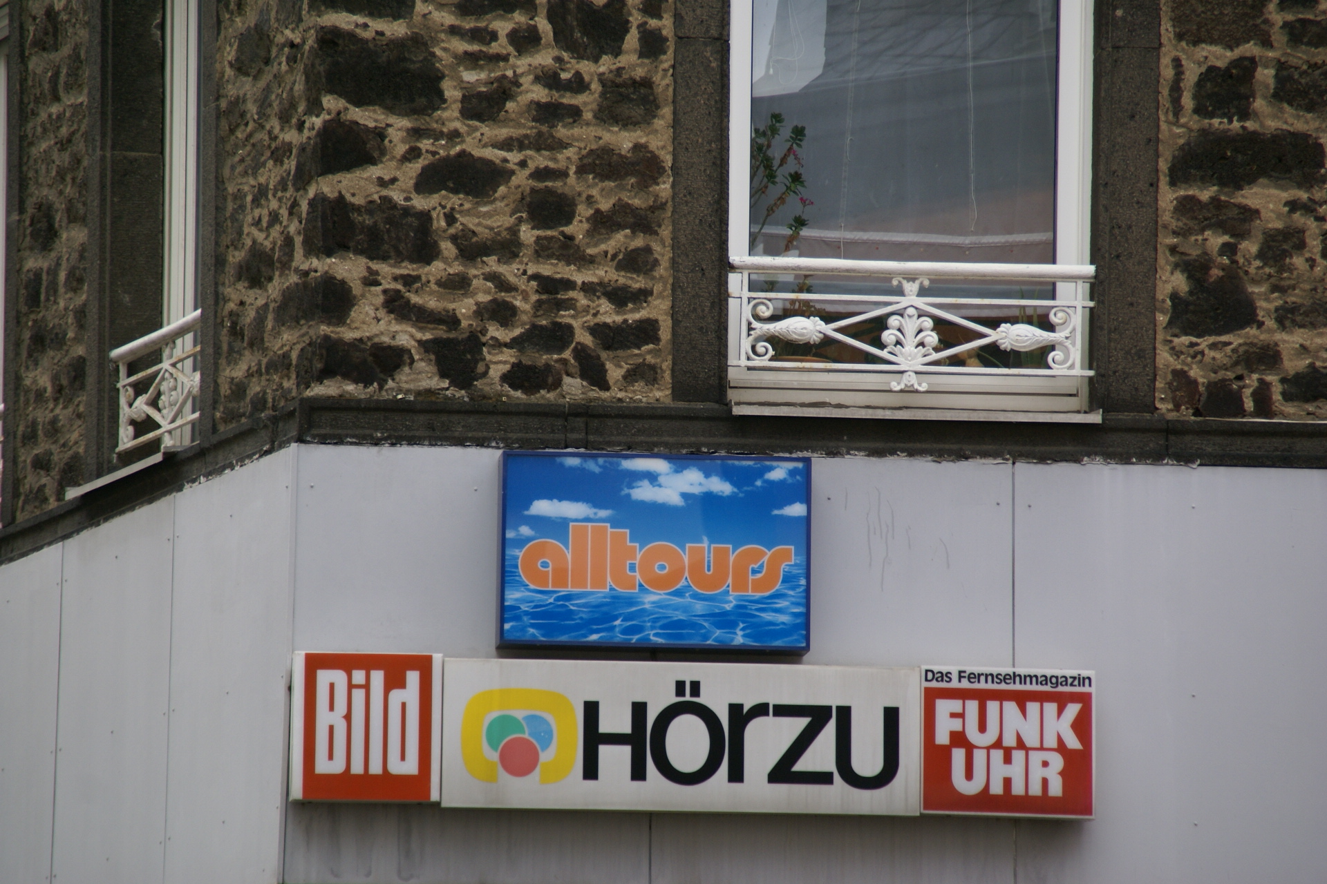 Signs at Obertorstraße in Münstermaifeld, Germany